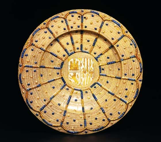 Deep Dish, Spain After 1475 Tin-glazed earthenware with lustred decoration V&A Museum no. 1680-1855